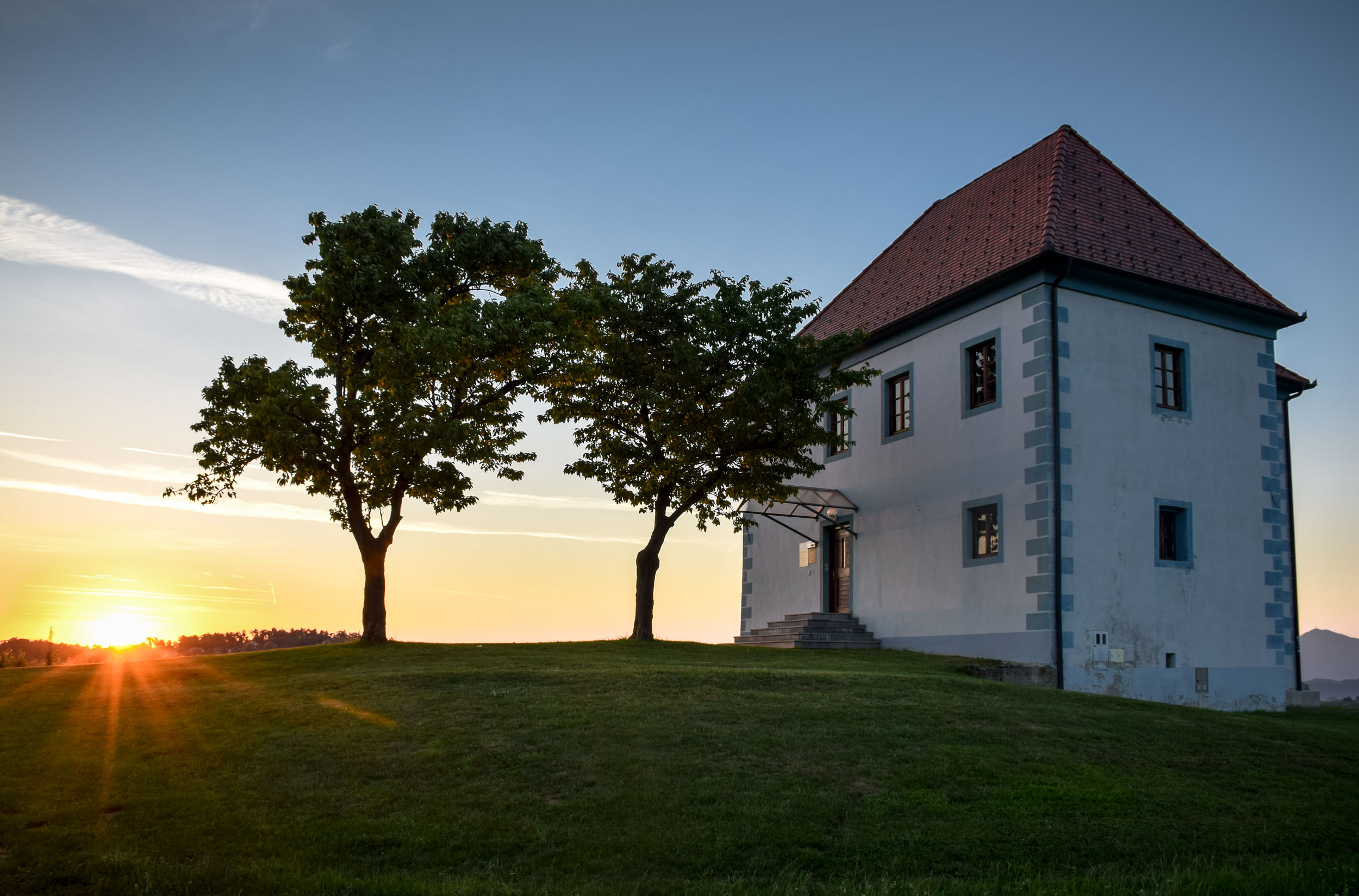 Vineyard manor in Škalce north of Slovenske Konjice, Slovenia.